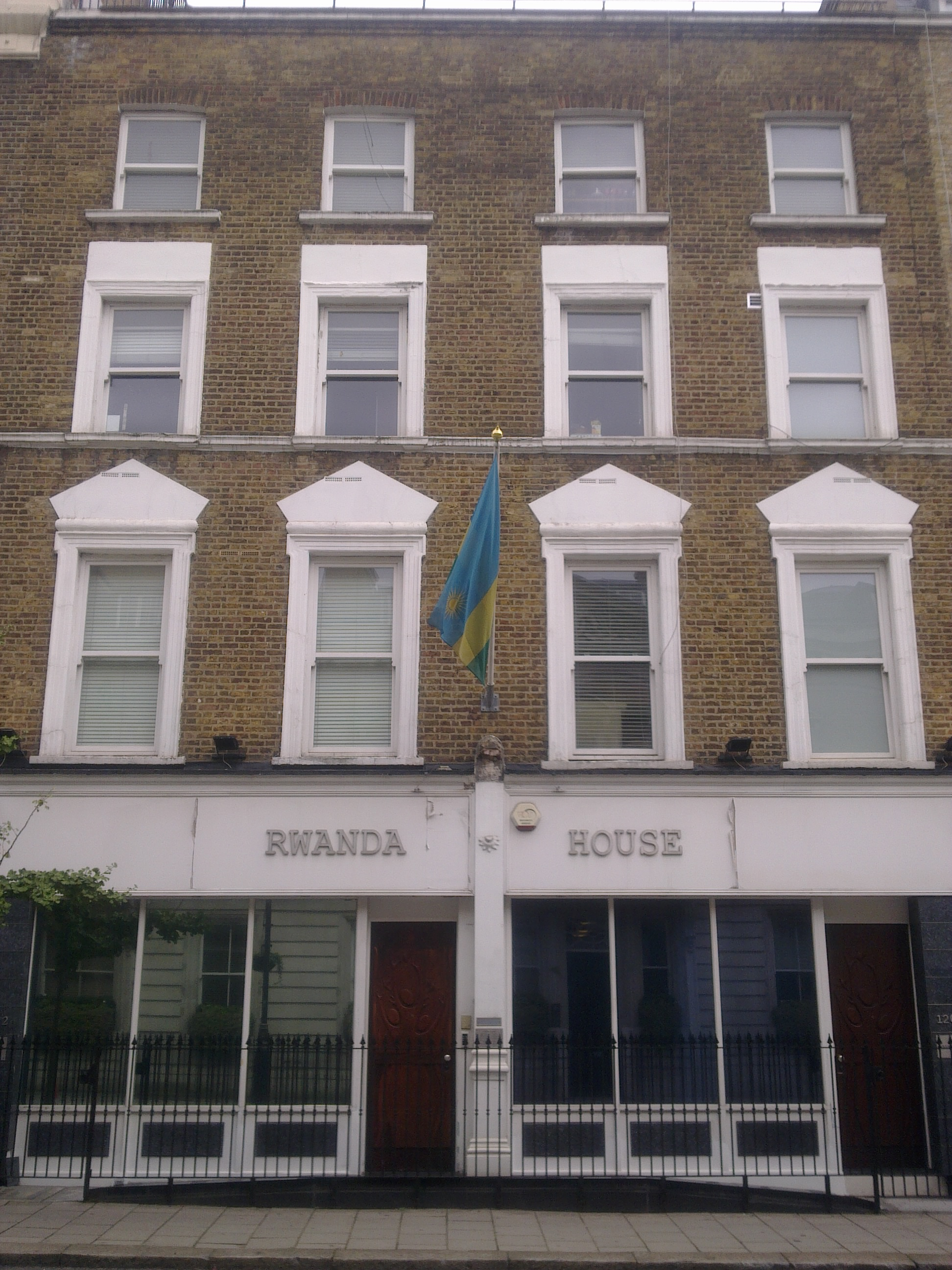 Rwanda House - High Commission of Rwanda in London